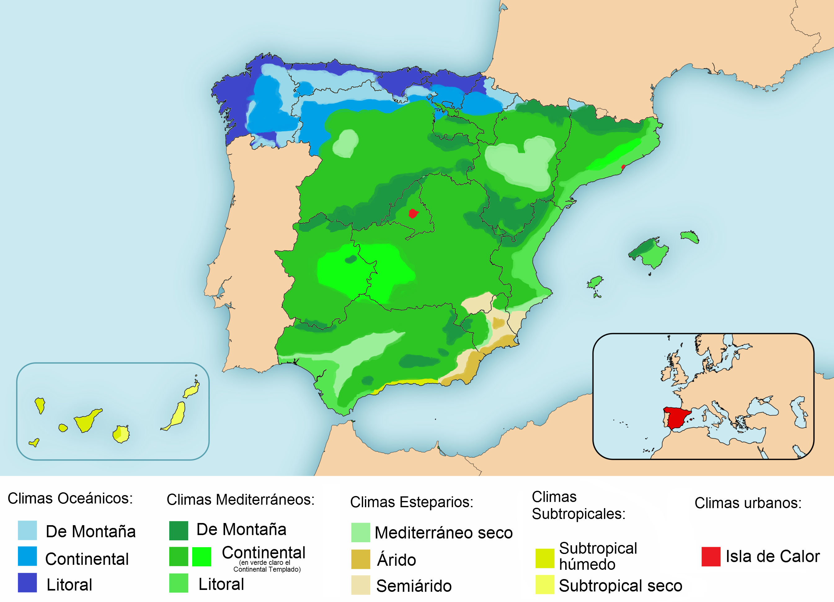 climates of Spain